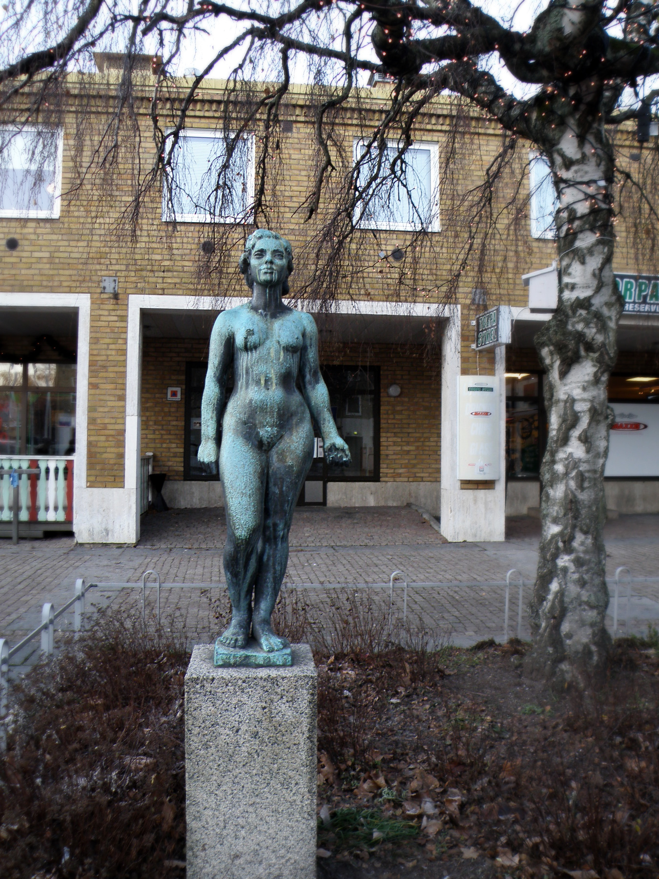 Springtime. Bronze statue of woman in the nude. Eric Grate, 1944. Kaggeledstorget, Gothenburg, sweden.